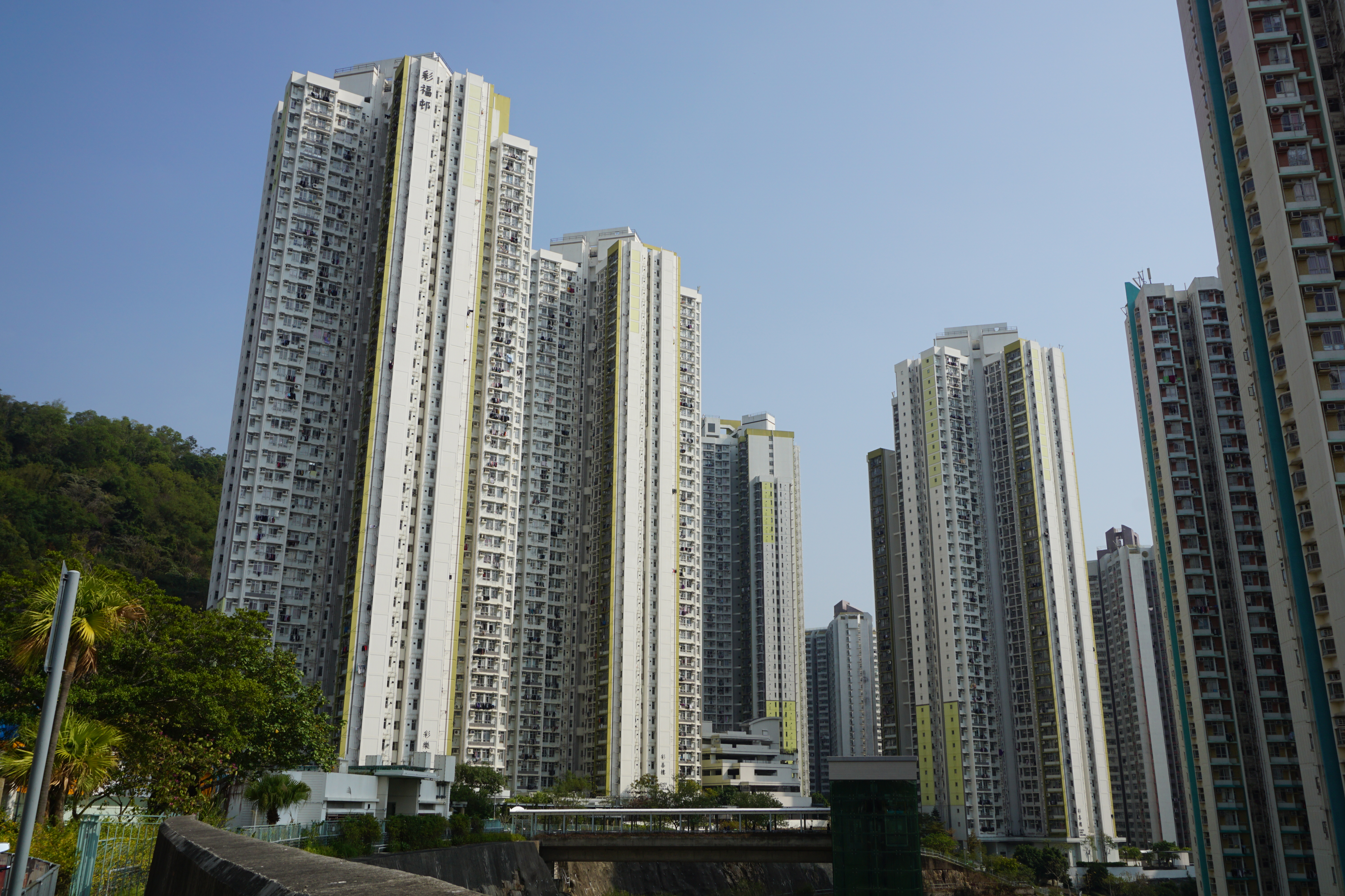 Choi Fook Estate in Kowloon Bay, Hong Kong.